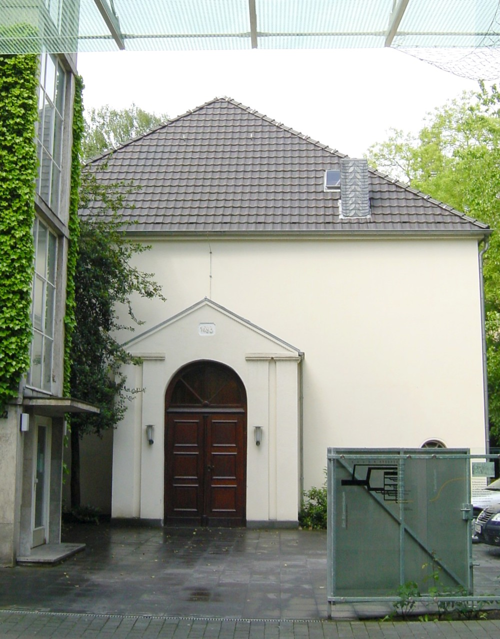 Mennnonite church on Königstraße ("King Street") in Krefeld, Germany